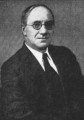 Stock Forest Service photo of Raphael Zon